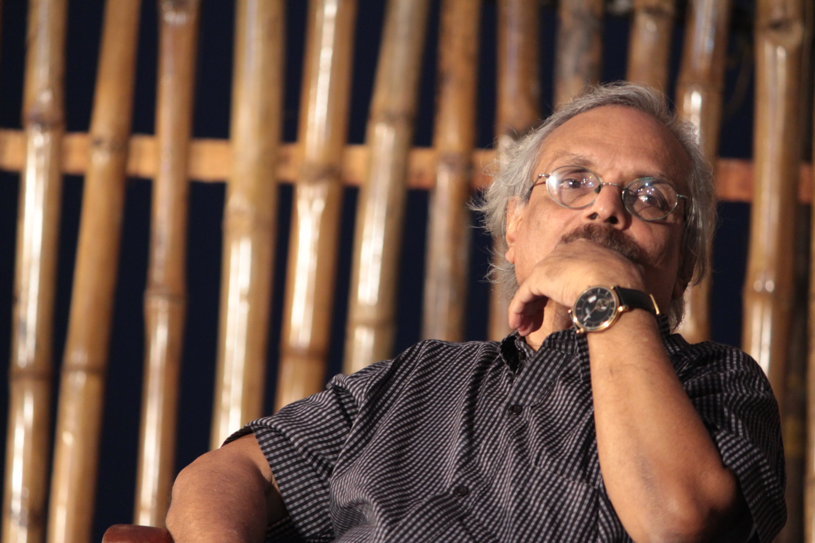 M. Mukundan in Kozhikode on 2017 February